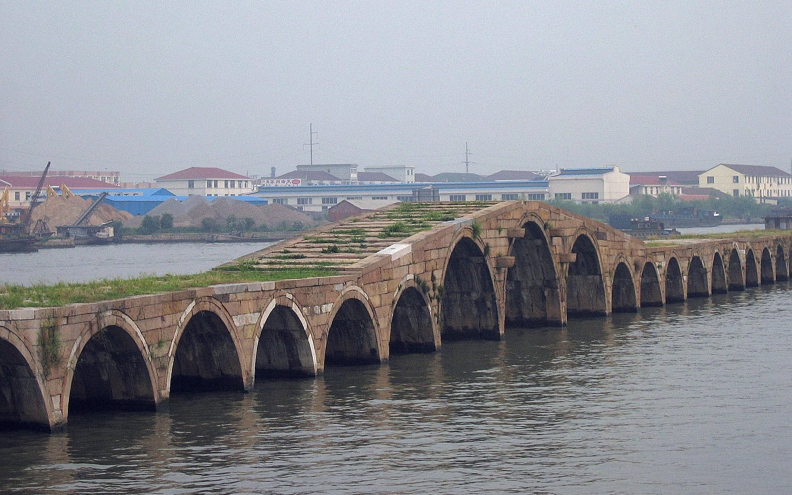 Photograph of the Precious Belt Bridge, near the city of Suzhou, Jiangsu Province, China. The picture was taken on July 25 2004 by Rolf Müller. The direction of view is towards the Grand Canal of China.